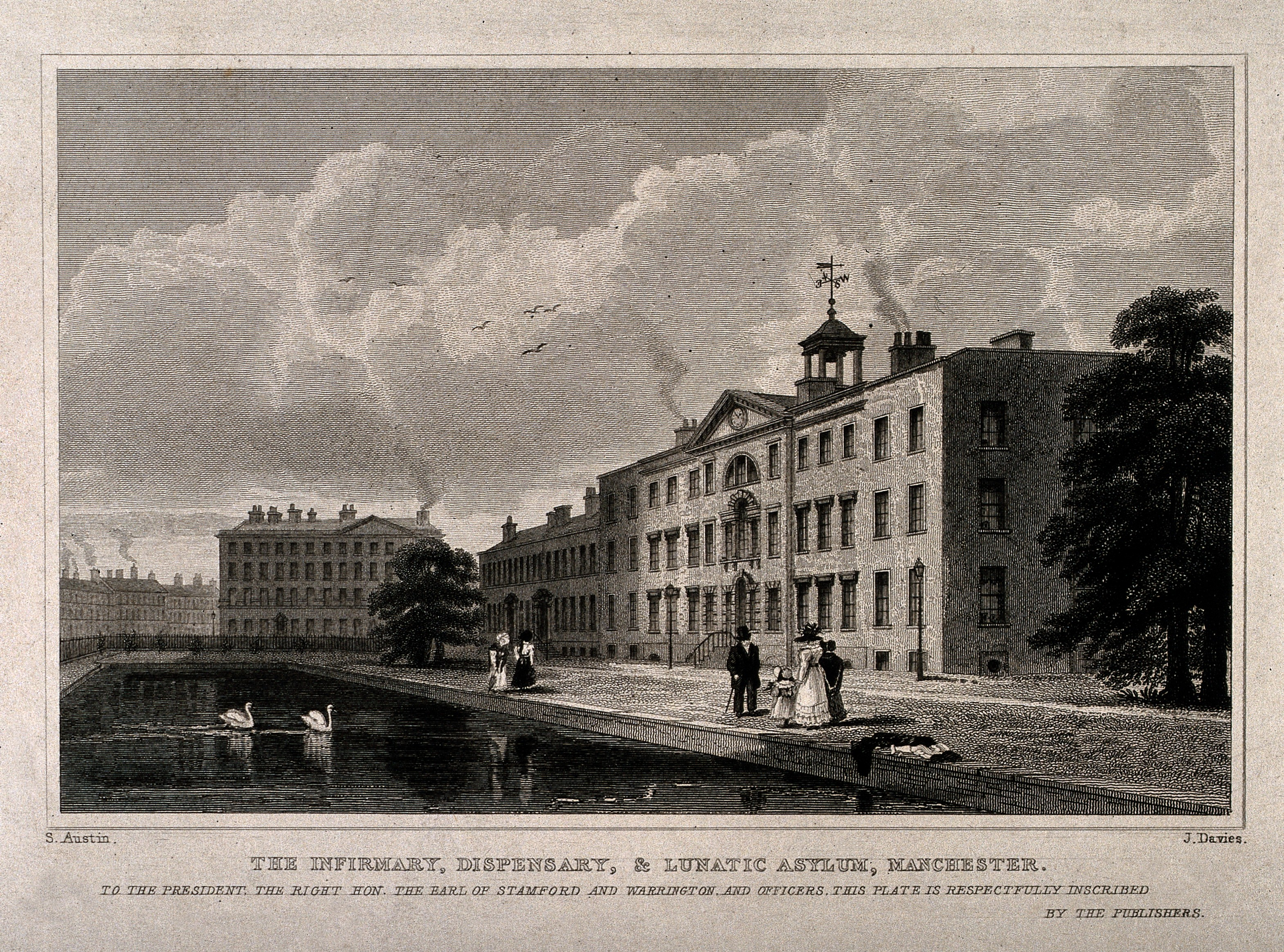 The Infirmary, Dispensary and Lunatic Asylum, Manchester, England. Line engraving by Samuel Austin after James Hey Davies. Iconographic Collections Keywords: James Hey Davies; Samuel Austin